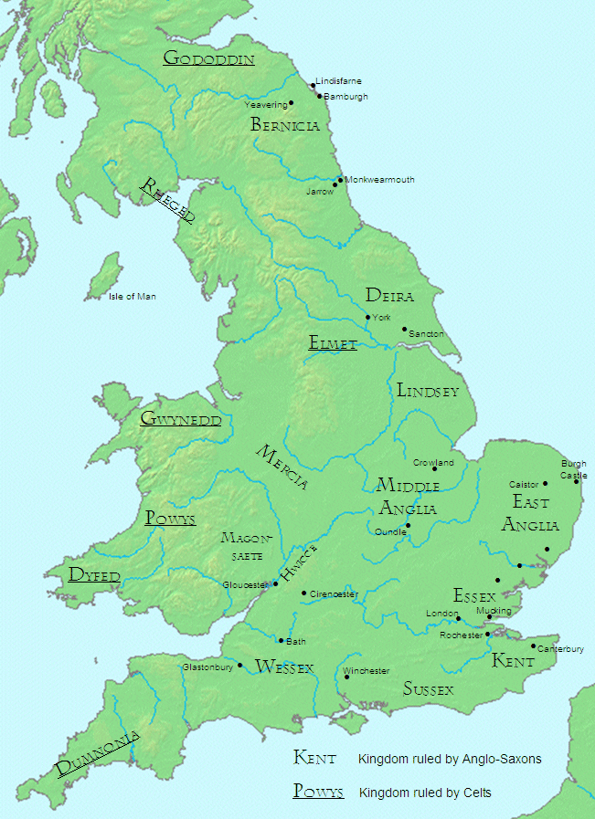 Map of England and Wales, showing Anglo-Saxon and Celtic kingdoms as of c. 600. Redrawn from a map in James Campbell, The Anglo-Saxons, Penguin Books, 1991.